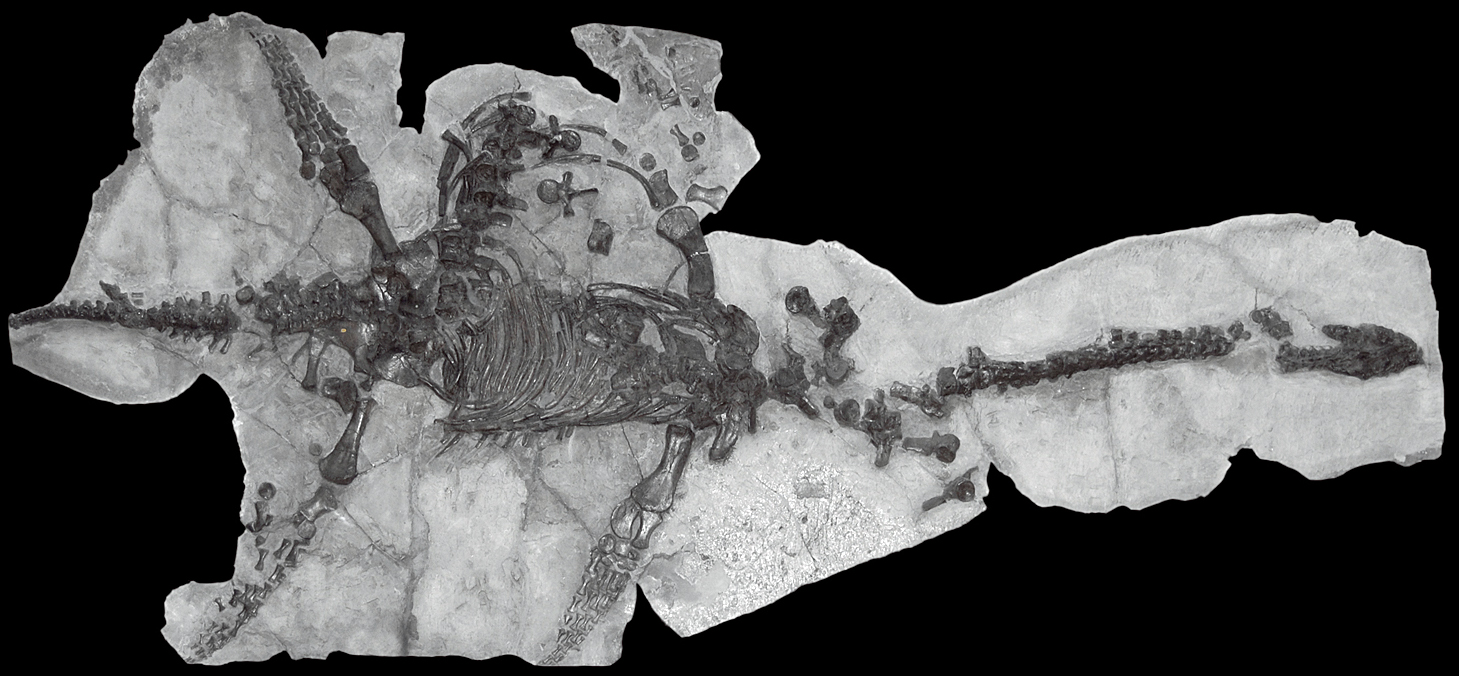 Plesiosaurus dolichodeirus lower jurassic lyme regis